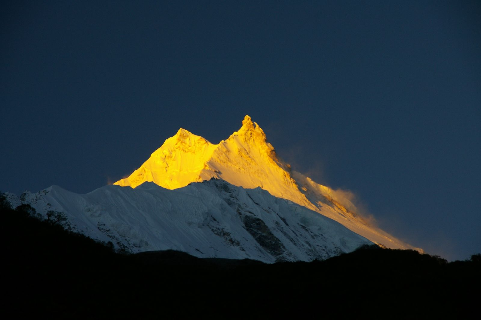 Sunrise, Manaslu, Nepal, Himalaya